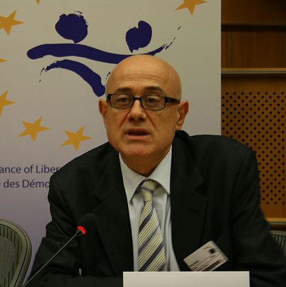 Image of the Italian political leader Sergio D'Elia